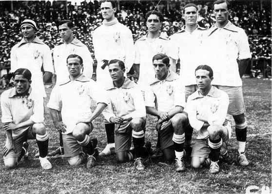 The Brazil national football team that won the Copa America in 1919. Standing: Píndaro (Flamengo), Sérgio I (Paulistano), Marcos (Fluminense), Fortes (Fluminense), Bianco (Palestra Itália) and Amílcar (Corinthians); Kneeling: Millón (Santos), Neco (Corinthians), Friedenreich (Paulistano), Héitor (Palestra Itália) and Arnaldo (Santos).